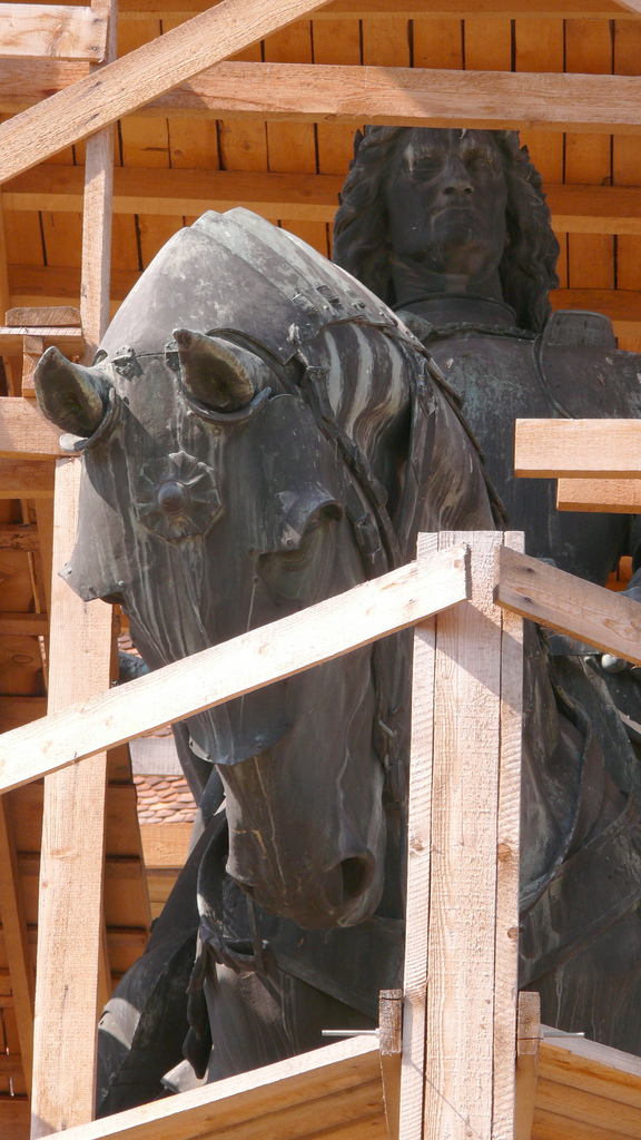 The statue of King Matthias under renovation